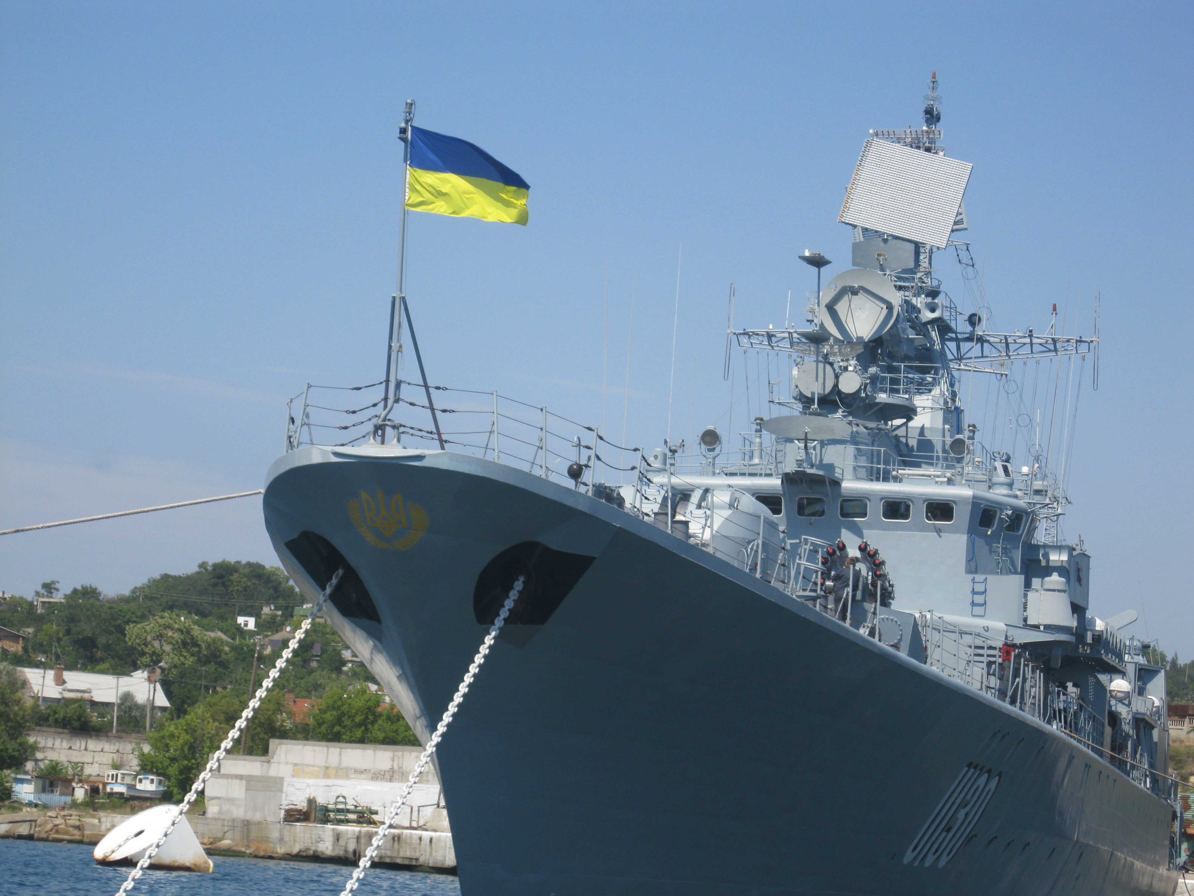 Ukrainian Navy flagship Hetman Sahaidachny (U130) in Sevastopol.